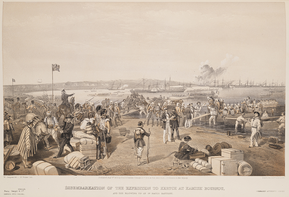 Title: Disembarkation of the Expedition to Kertch at Kamish Bournou, and the Blowing Up of St. Paul's Battery. Creator: Simpson, William, 1823-1899 (delineator); Walker, Edmund, active 1836-1882 (lithographer) Contributors: Day & Son (lithographers); P. & D. Colnaghi & Co. (publisher) Date: August 3, 1855 Part of: seat of war in the East ... 1st-2d series/ Series: Sketches at the Seat of War in the East: Second Series/ Place: Cape Kamysh-Burun, Kerch, Crimea Physical Description: 1 print: lithograph, color, part of 1 volume (117 prints); 30 x 47cm on 39 x 57 cm File: folio_3_dk214_s56_2_015_opt.jpg Rights: Please cite DeGolyer Library, Southern Methodist University when using this file. A high-resolution version of this file may be obtained for a fee. For details see the web page. For other information, . For more information and to view the image in high resolution, View the